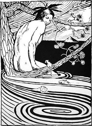 Manabozho in the tree above the flood.